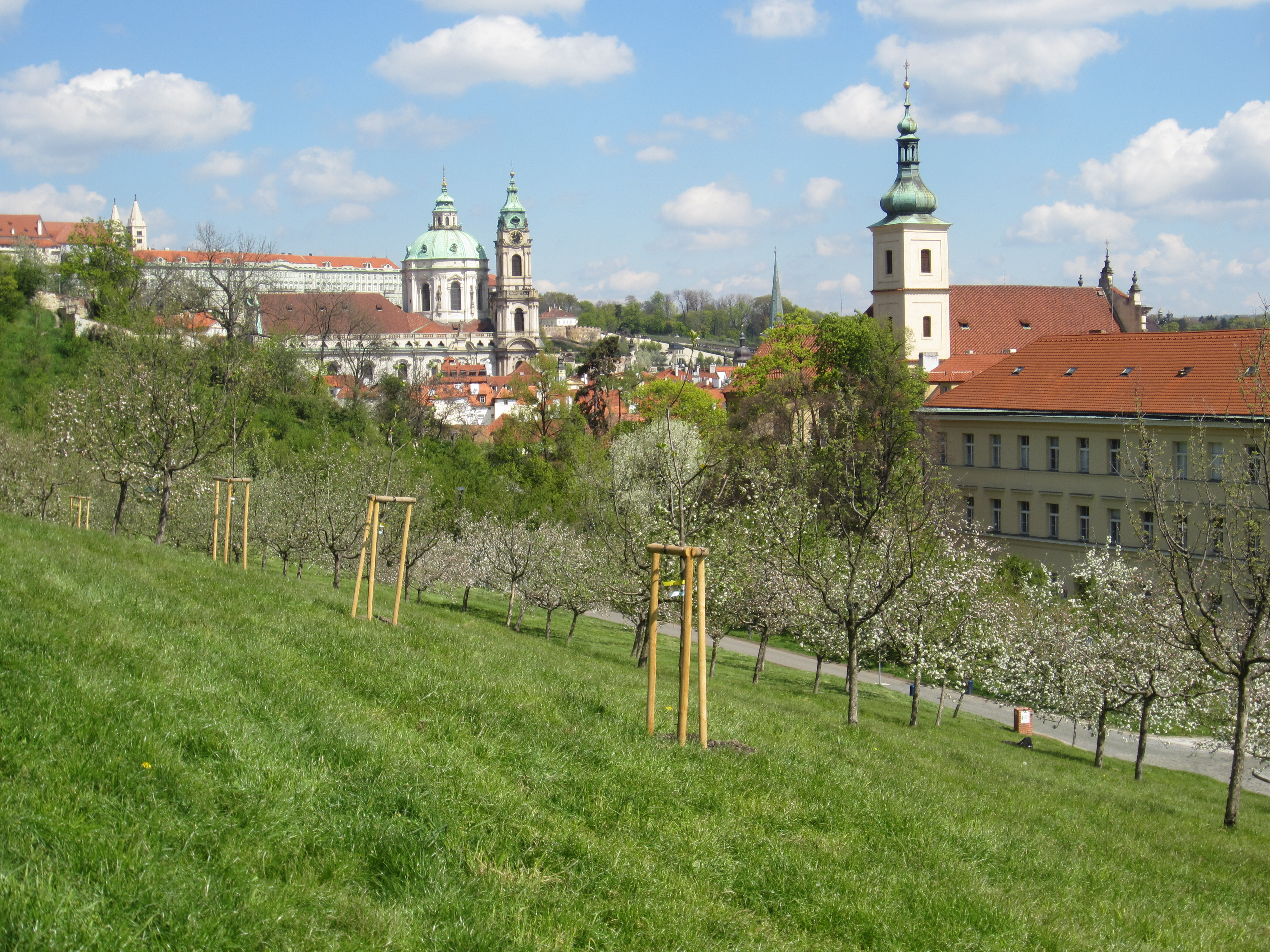 Prague, Czech Republic, April 2016